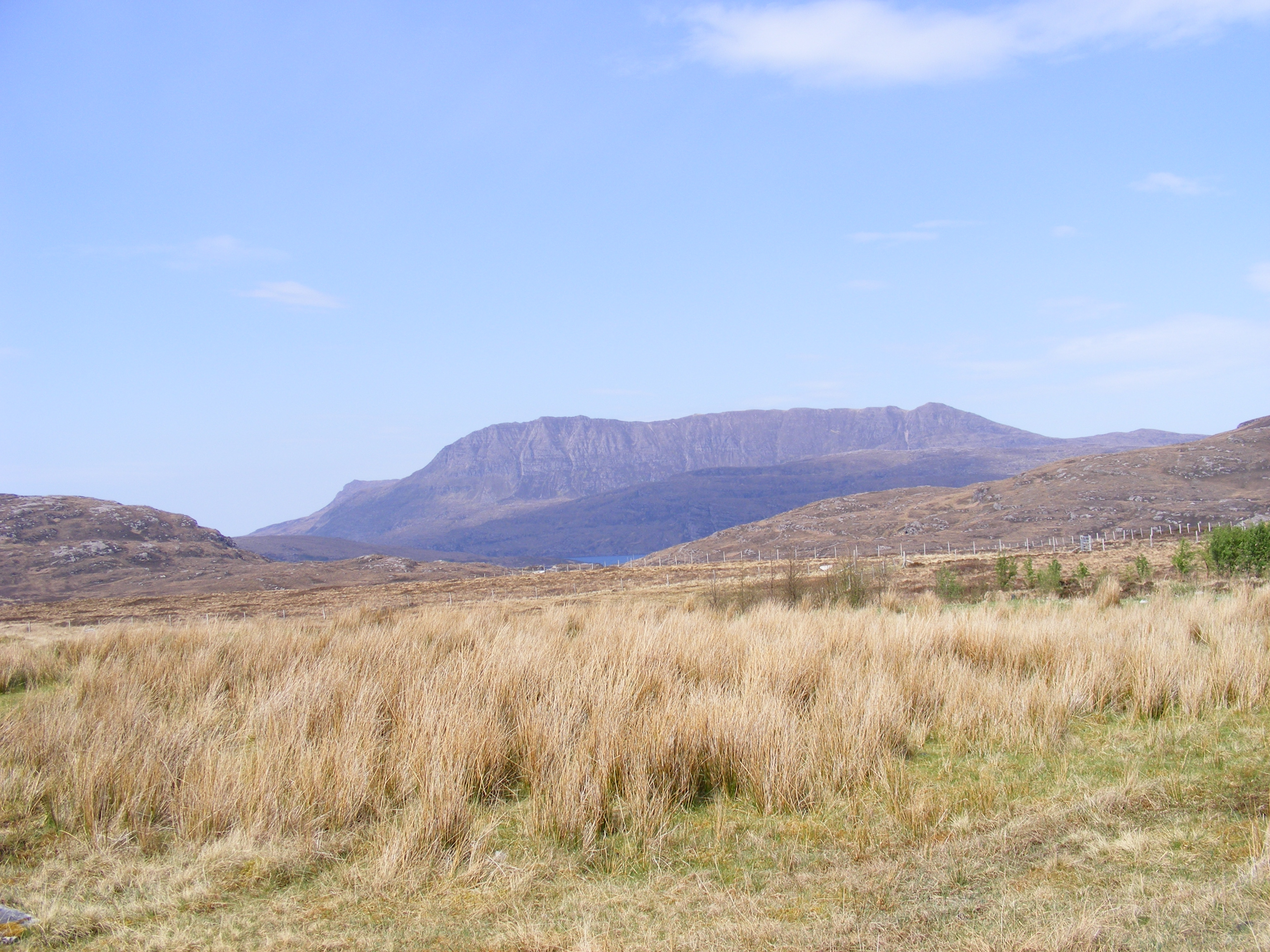 Ben Mór Coigach, from above Morefield, near Ullapool